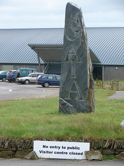 Gaia is private Unfortunately, it appears that Gaia is no longer available to mere mortals - the visitor centre is closed to the public!